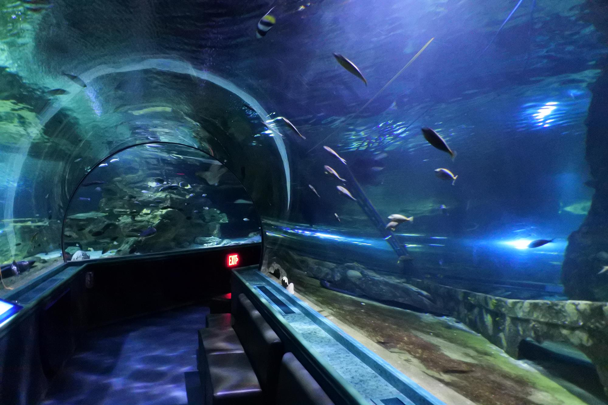 Aquarium view inside Underwater World in Tumon, Guam